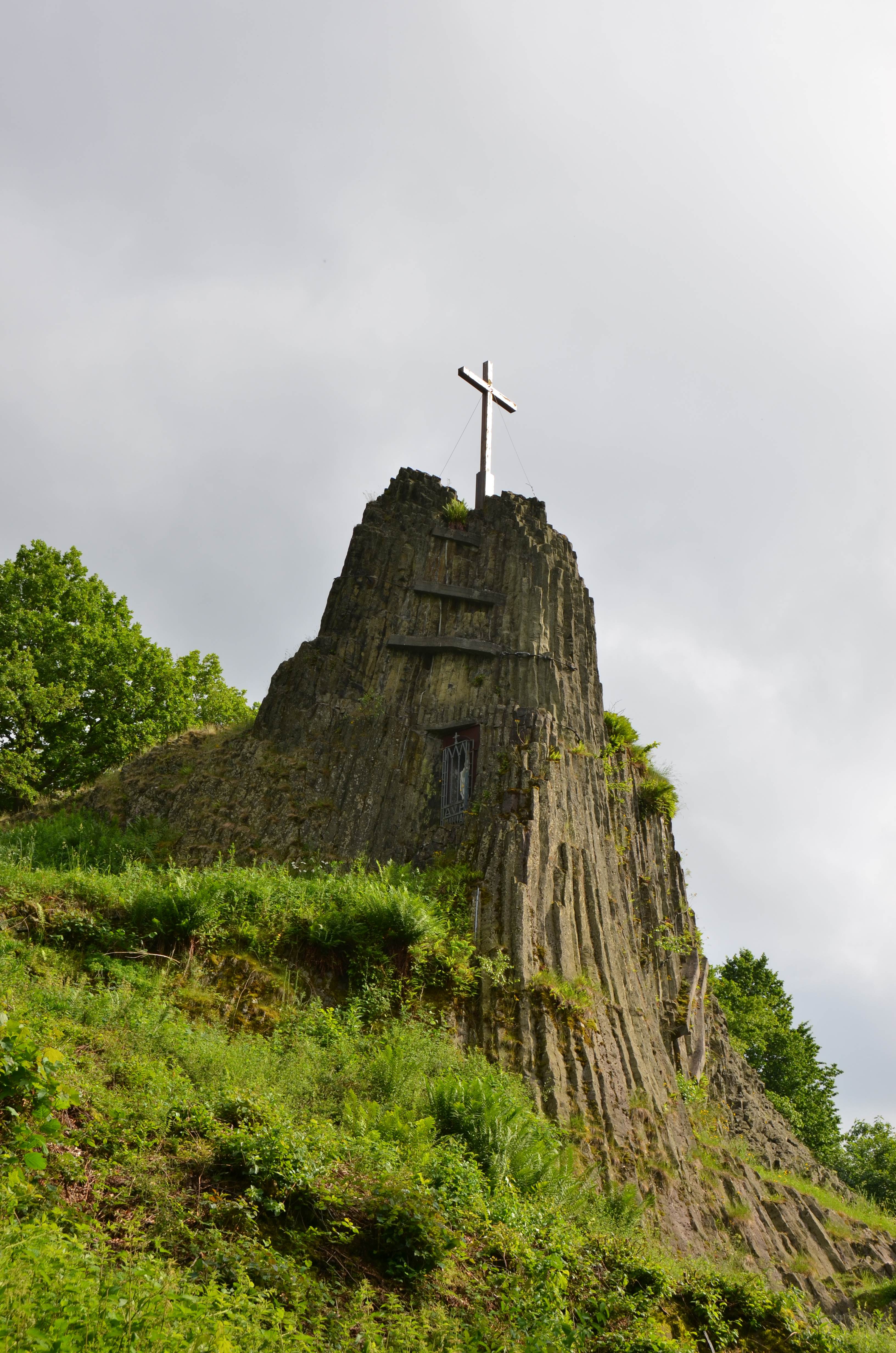 Northwall of the Druidenstein with the embedded Statue of the Virgin Mary.